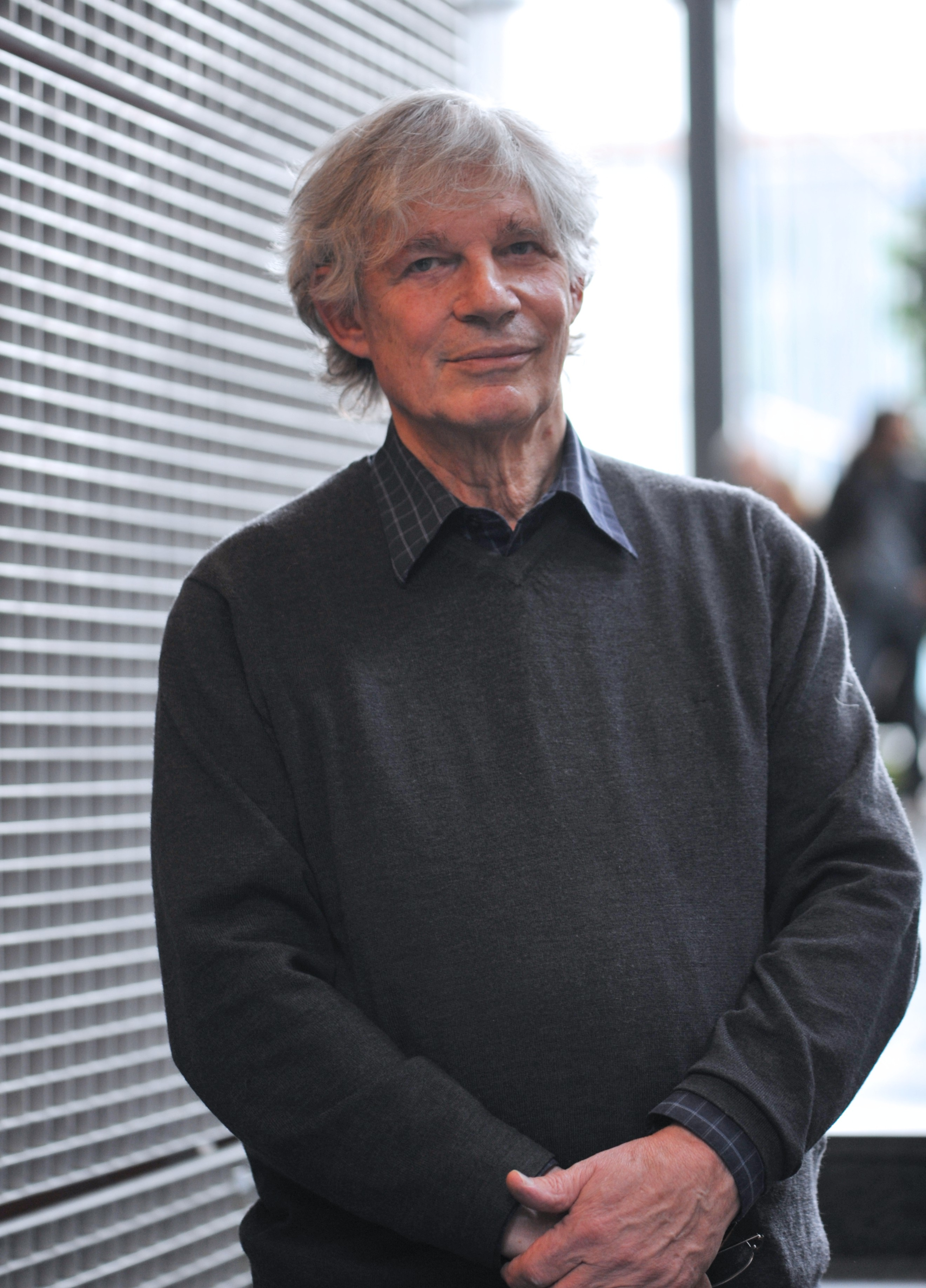 Stuart Kauffman, American biologist, at the University of Helsinki in April 2010.